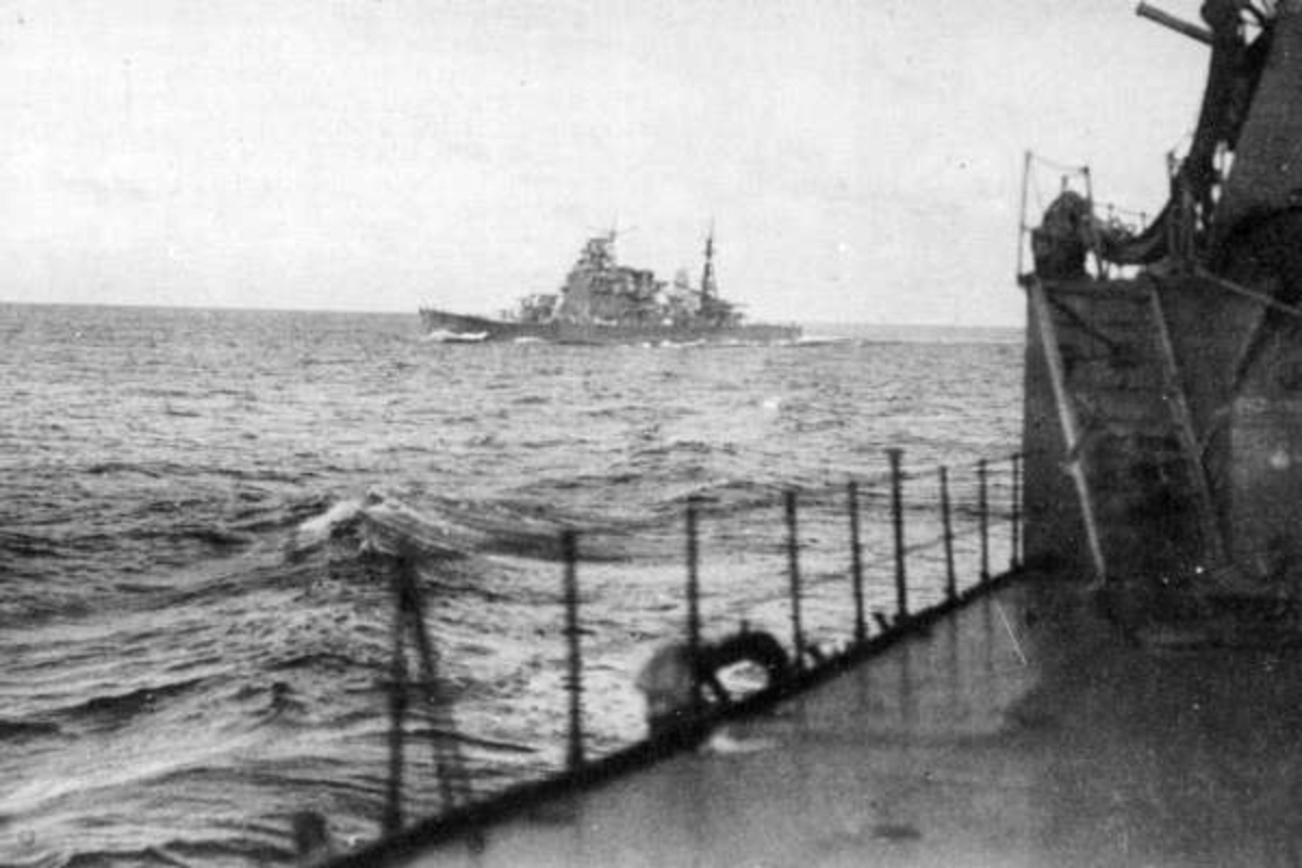 Takao, heavy cruiser of the Imperial Japanese Navy, cruising forword Guadalcanal Island, Solomon Islands. This photo is taken from Atago.